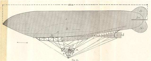 Side elevation drawing of the Lebaudy Patrie 1906-1907